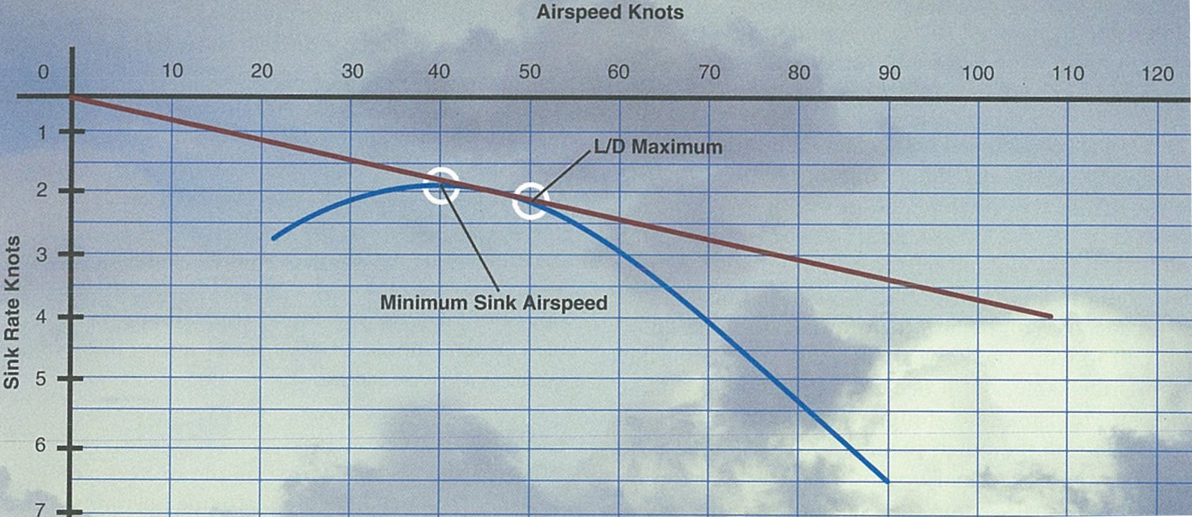 Computation of the speed yielding the best glide ratio using the polar curve